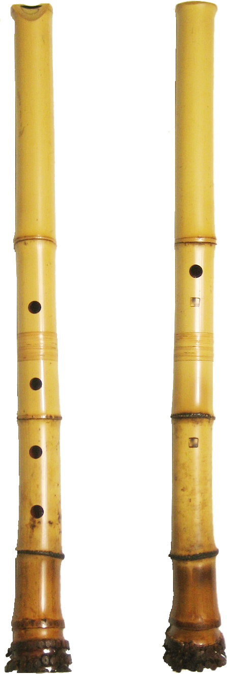 A shakuhachi (尺八), a Japanese bamboo flute, blowing edge up. Left - top view, four holes. Right - bottom view, fifth hole.